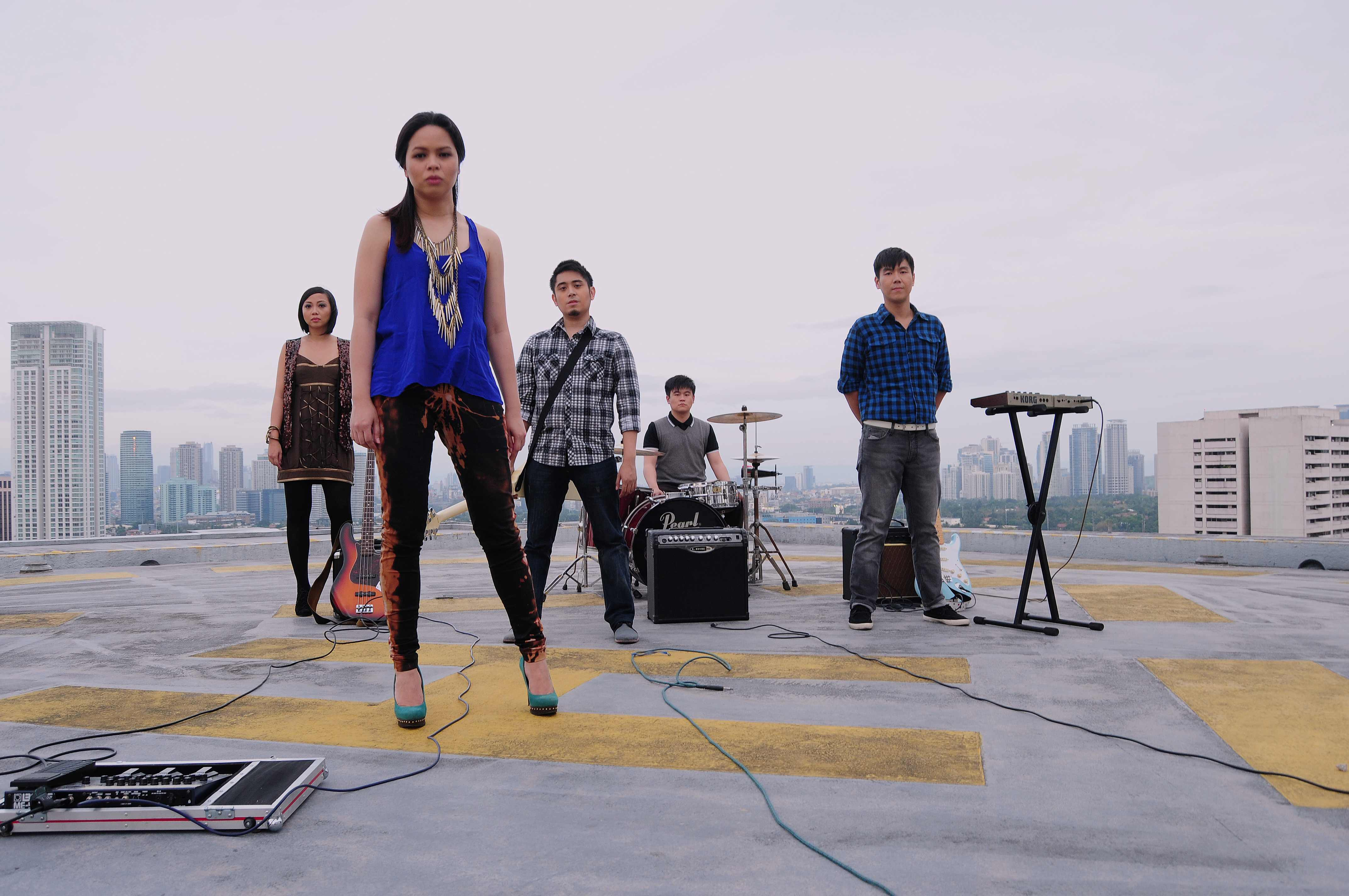 Dualist album cover photo shoot